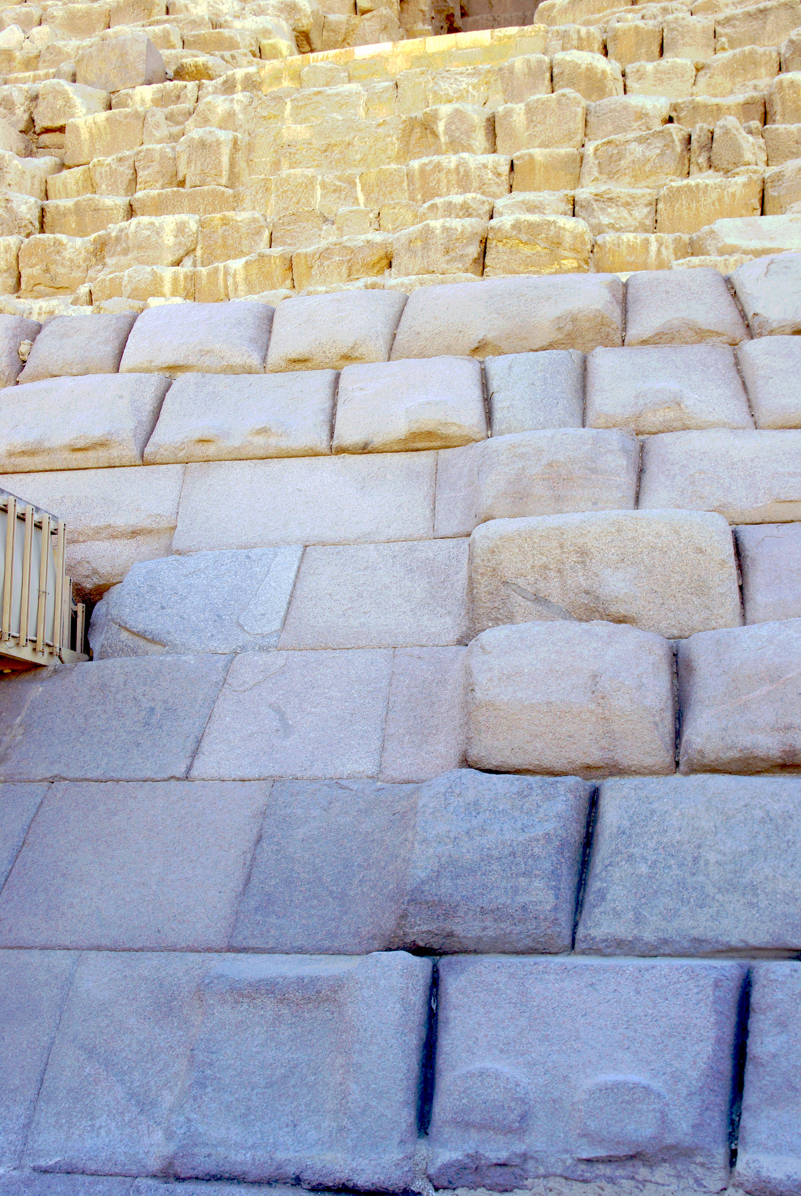 Unfinished stones at the base of the third pyramid of Menkaure.